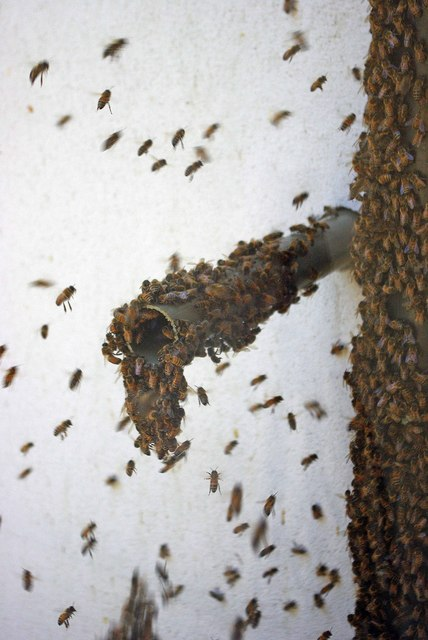 A Load of Hay? The old adage goes: a swarm of bees in May is worth a load of hay, a swarm of bees in June is worth a silver spoon. A swarm of bees in July isn't worth a fly. This swarm was making its home in the water overflow of the 1320114. I expect the Essex Wildlife Trust was able to find a friendly beekeeper to sort out what could be a tiny bit of a problem with hordes of children within stinging range!